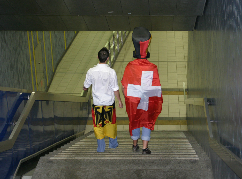 Impression from FIFA World Cup 2006 Cologne (round of 16, match Ukraine-Switzerland